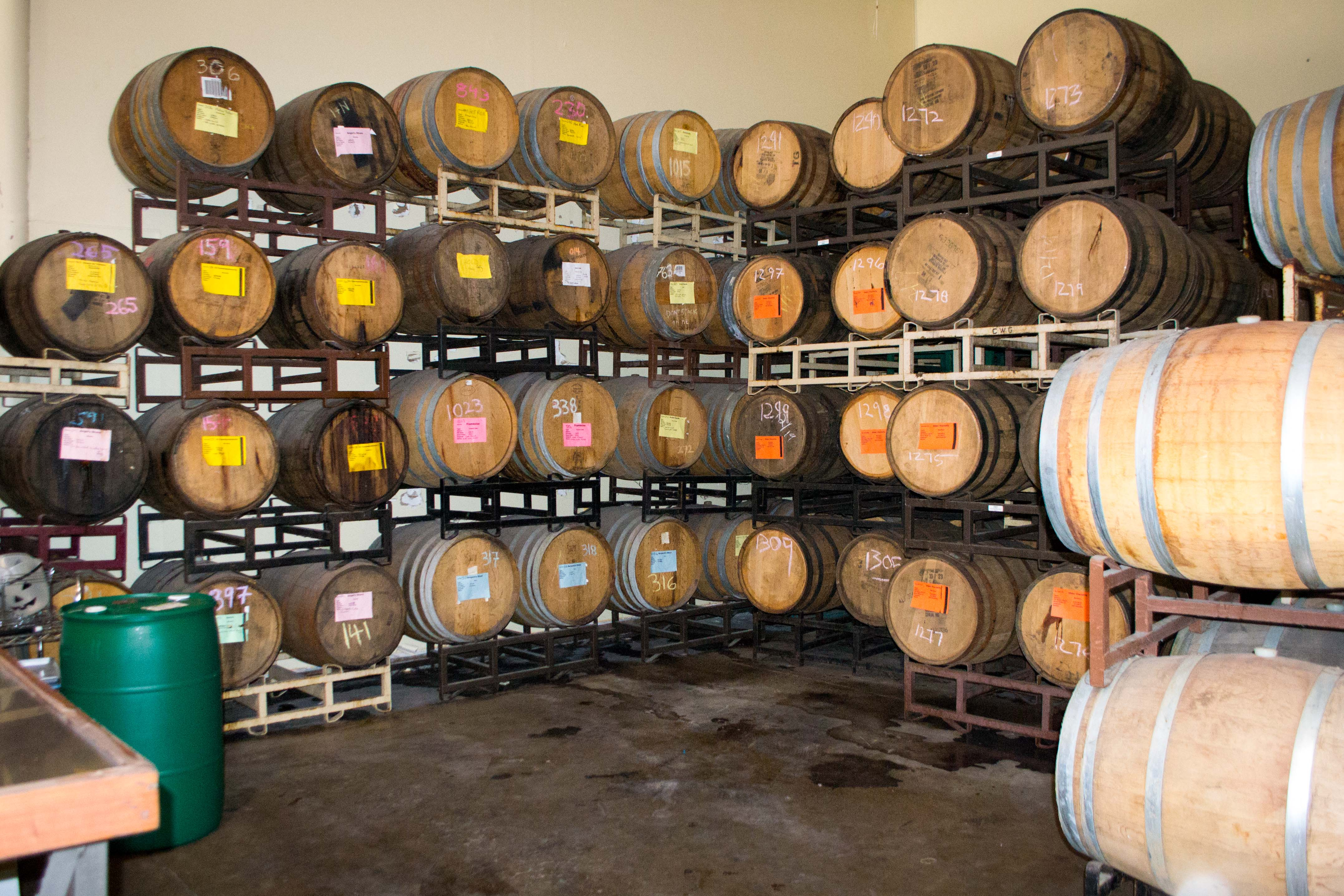 Lost Abbey Brewing Co